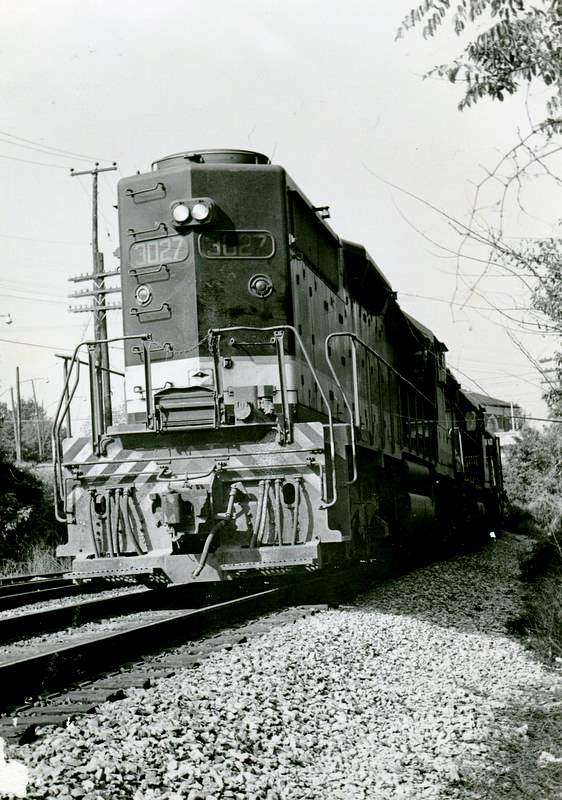 Southern Railway freight train passing through at Peachtree Station in Atlanta, ca. 1973.